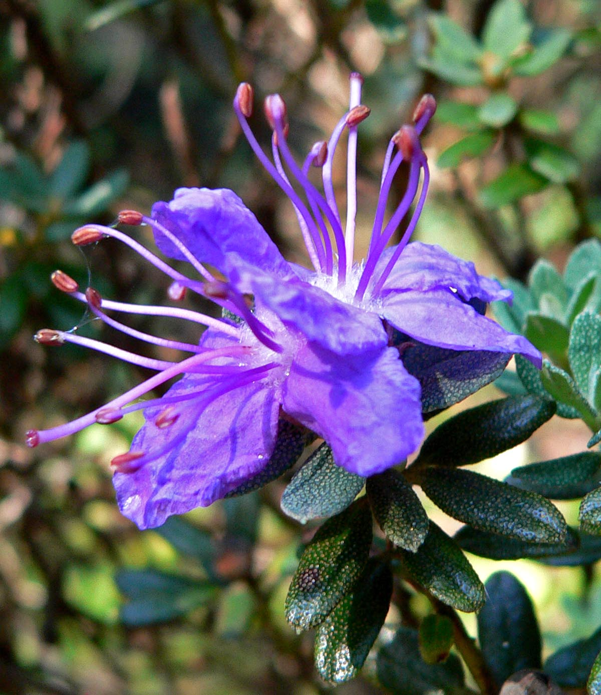 Photo of Rhododendron impeditum at VanDusen Botanical Garden